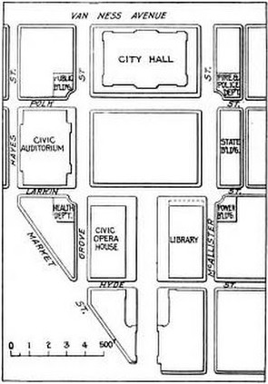 Final plan for Civic Center, San Francisco